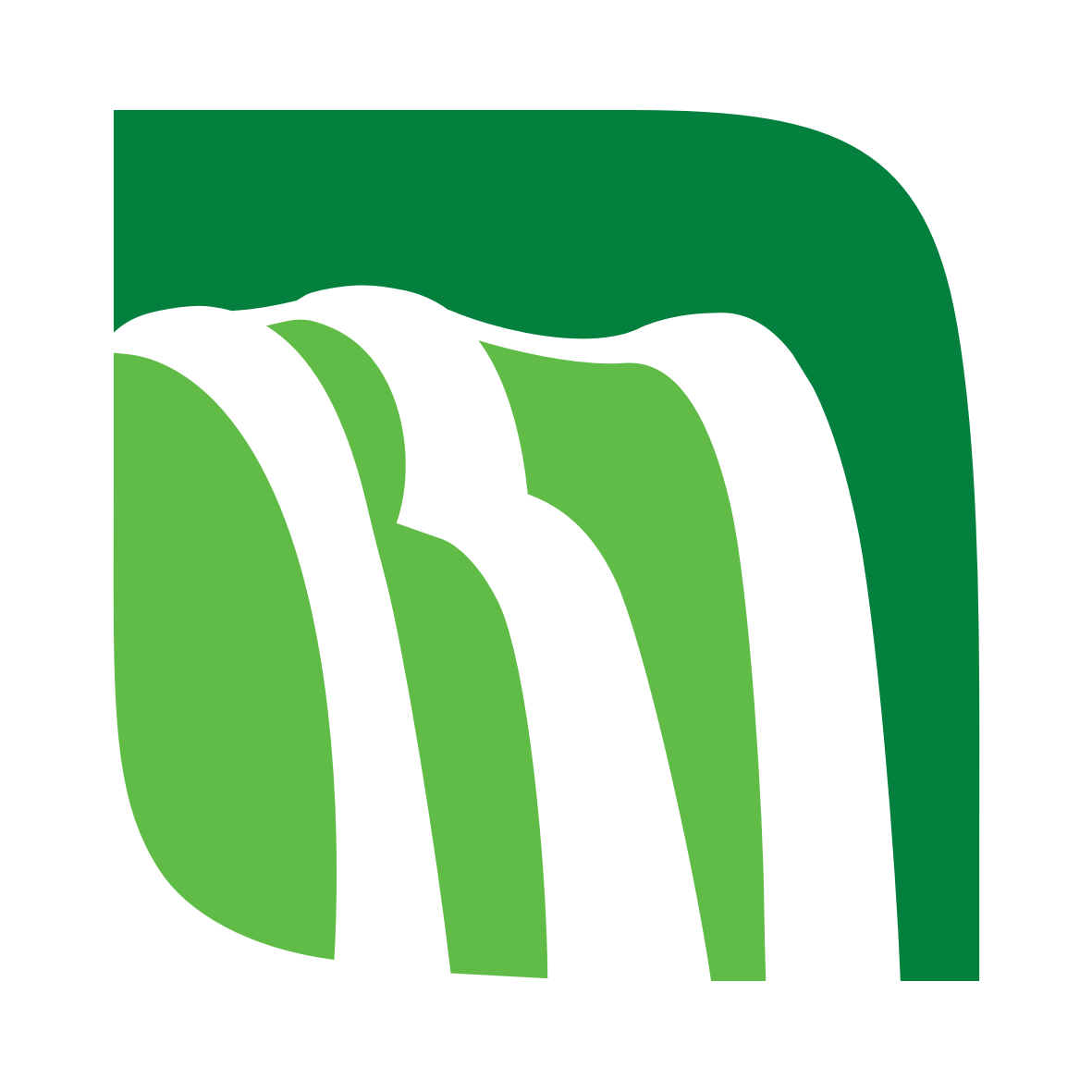 Logo - Una Mamea Park